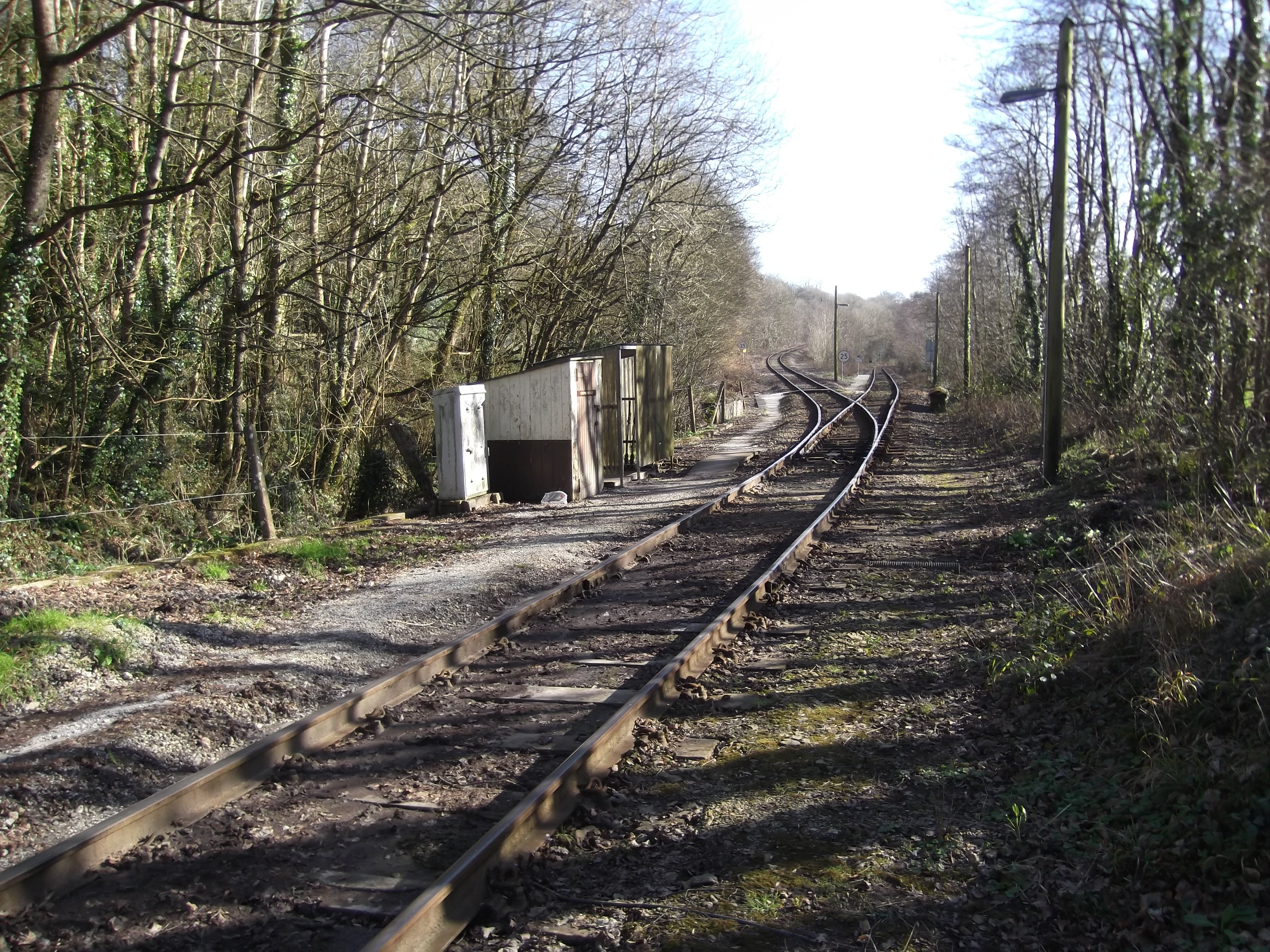 Coombe Junction on the Liskeard to Looe railway line; Looe is to the right, and the line to Liskeard climbs to the left